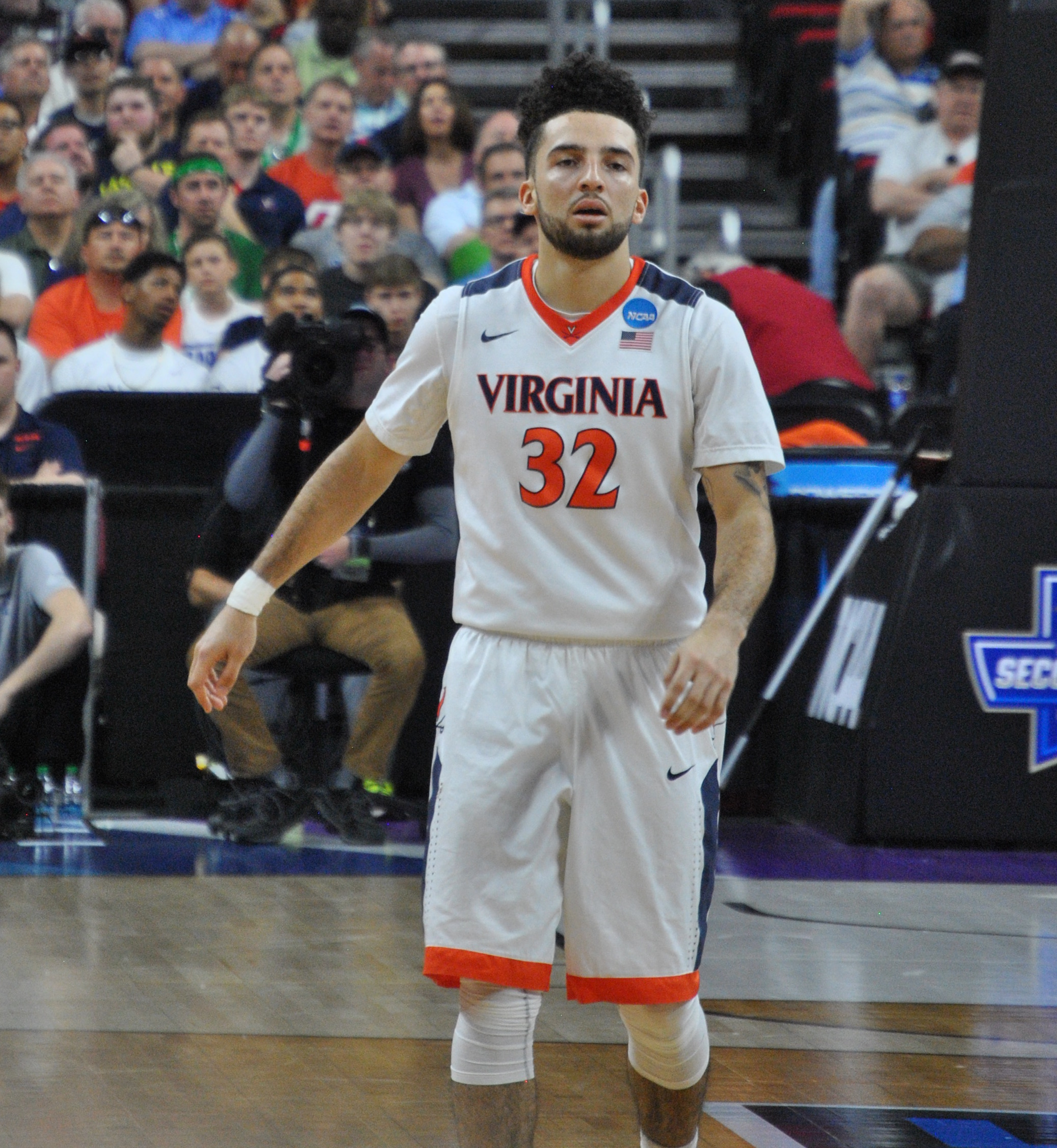 London Perrantes on the floor for the Cavaliers during their first round tournament game in Raleigh